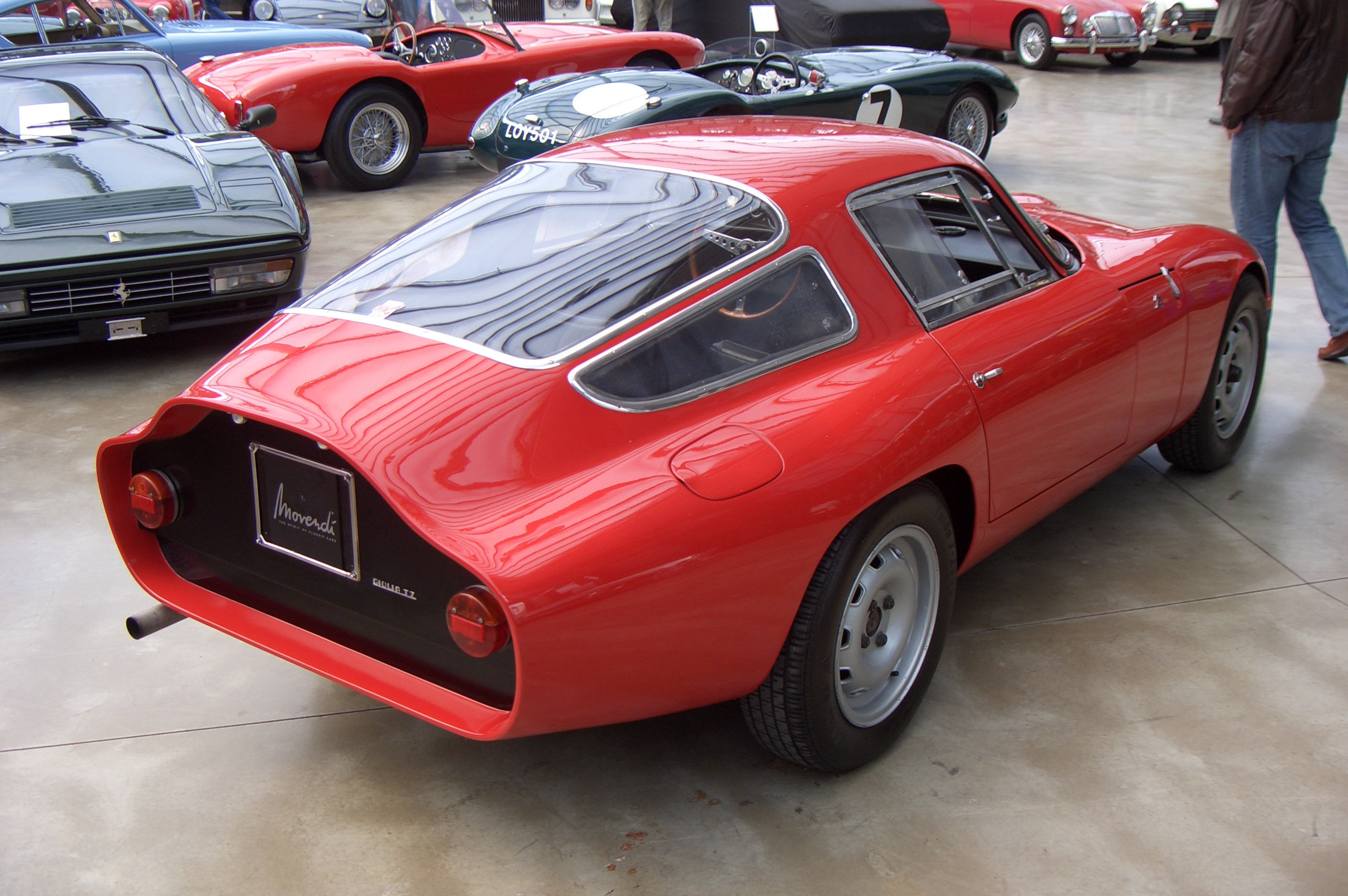 Alfa Romeo Giulia TZ 1, 1963-1965, seen at CLASSIC REMISE, Dusseldorf, Germany